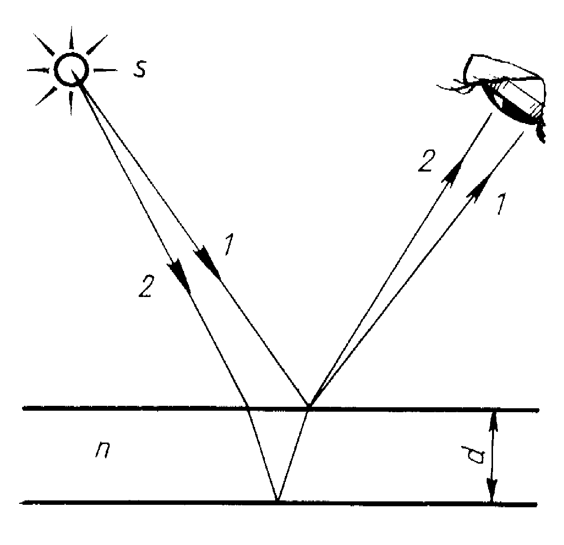 Լույսի ինտերֆերենցիա